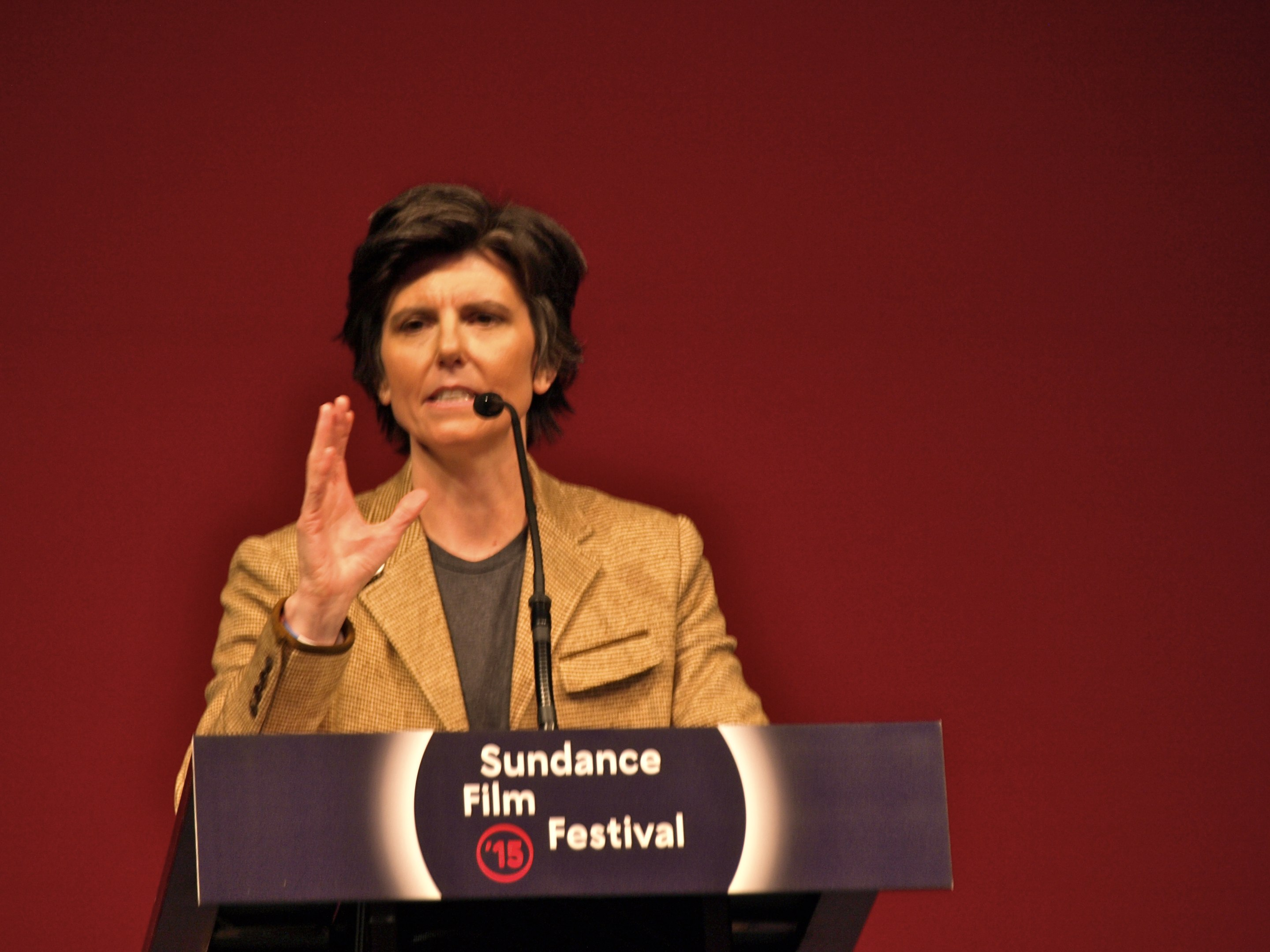 Tig Notaro at 2015 Sundance Film Festival